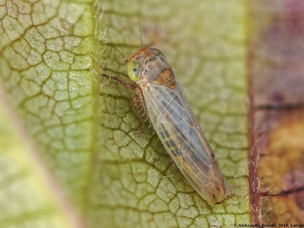 Grypotes puncticollis